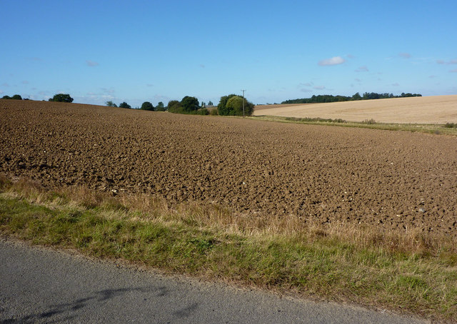 Fields near Gosling Green The shallow valley carries a small tributary of the River Box.